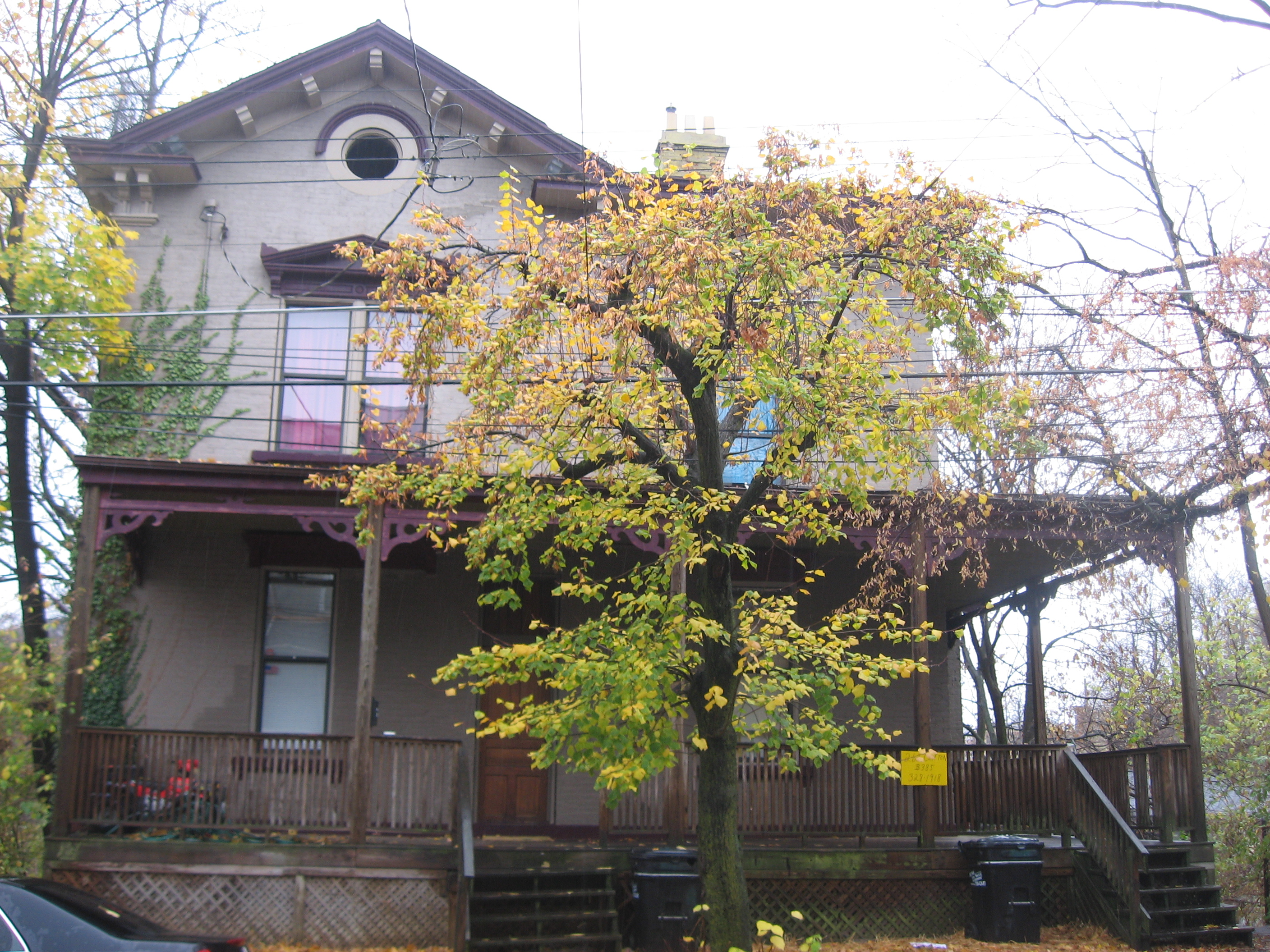 Front of the Jacob D. Cox House, located at 241-243 Gilman Avenue in the Mount Auburn neighborhood of Cincinnati, Ohio, United States. Built in 1880, it is listed on the National Register of Historic Places.